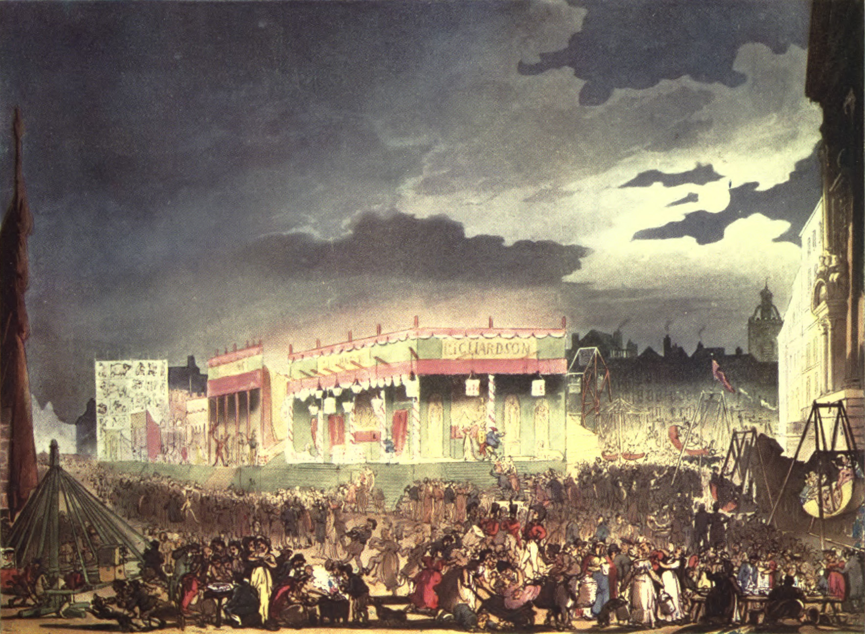 Bartholomew Fair